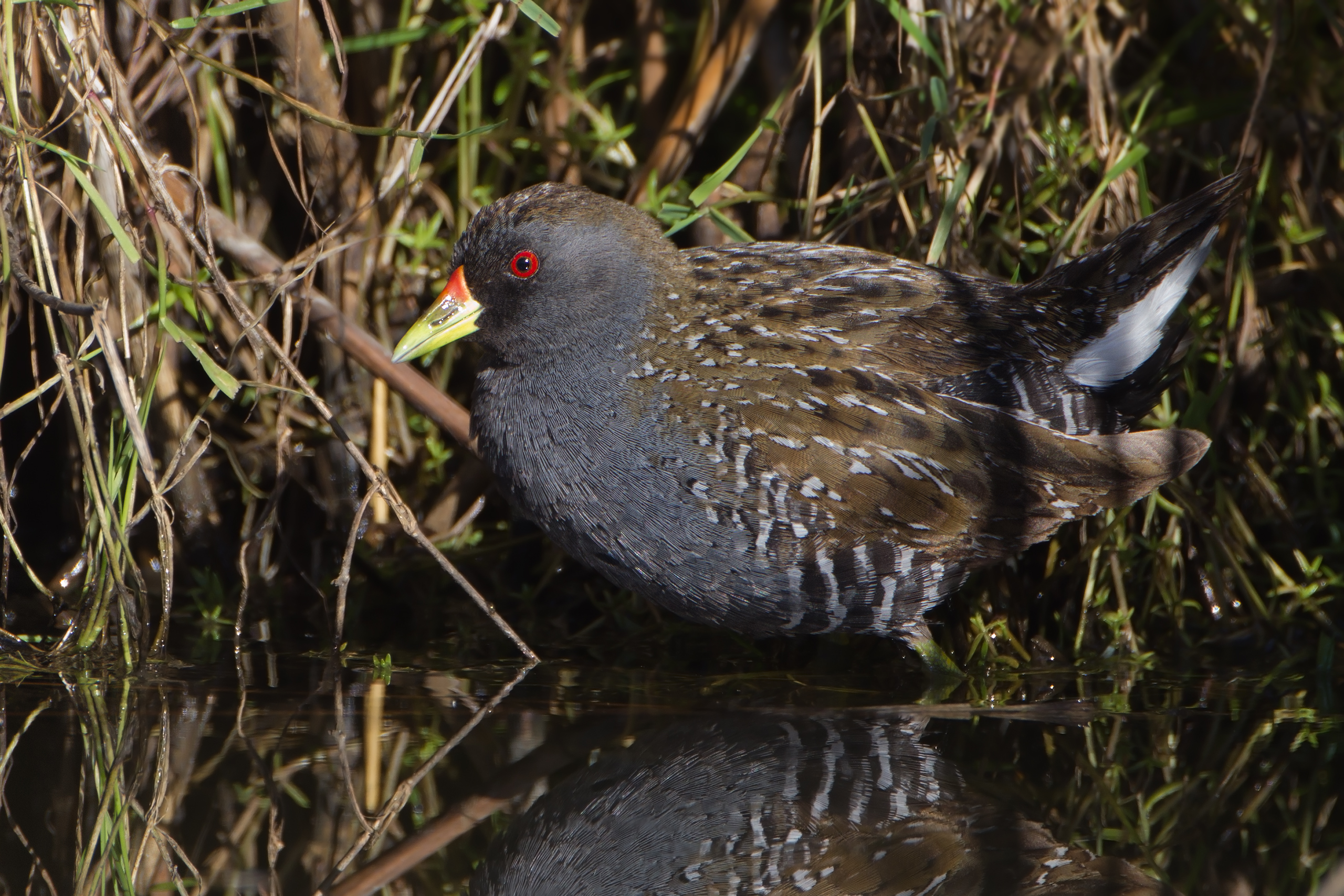 Australian Spotted Crake (Porzana fluminea), Gould's Lagoon, Tasmania, Australia